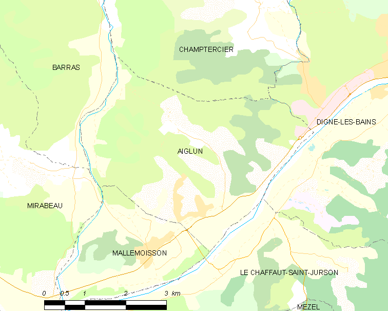 Map commune FR insee code 04001.png Légende